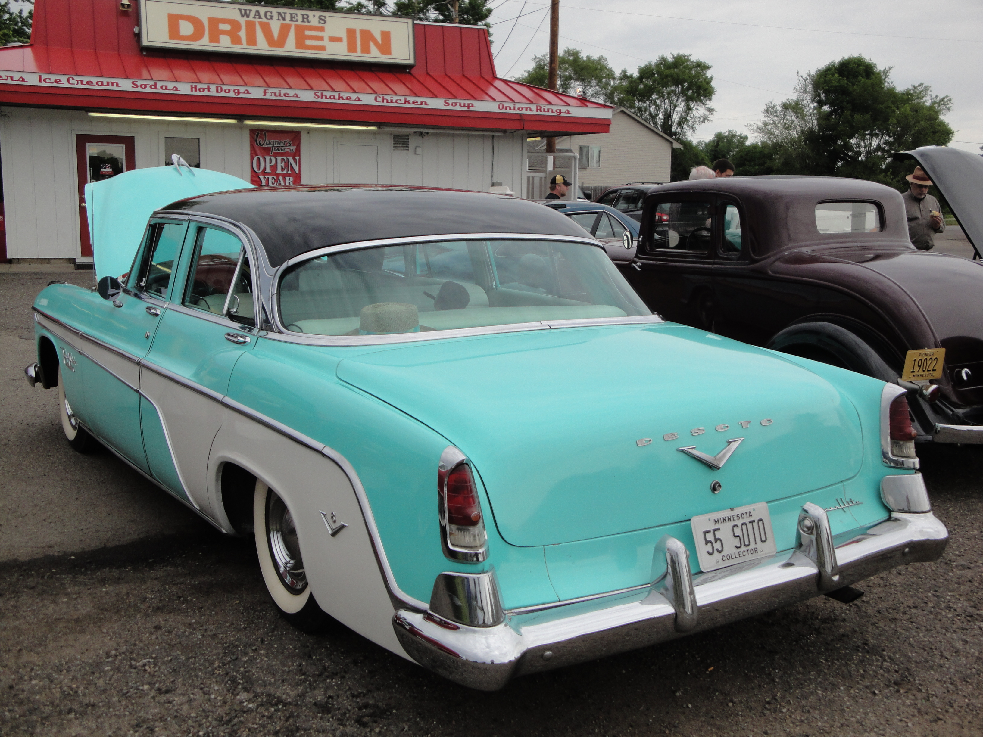 W.P.C. Restorers Club 10,000 Lakes Region Car Show June 12, 2011 Wagner's Drive in